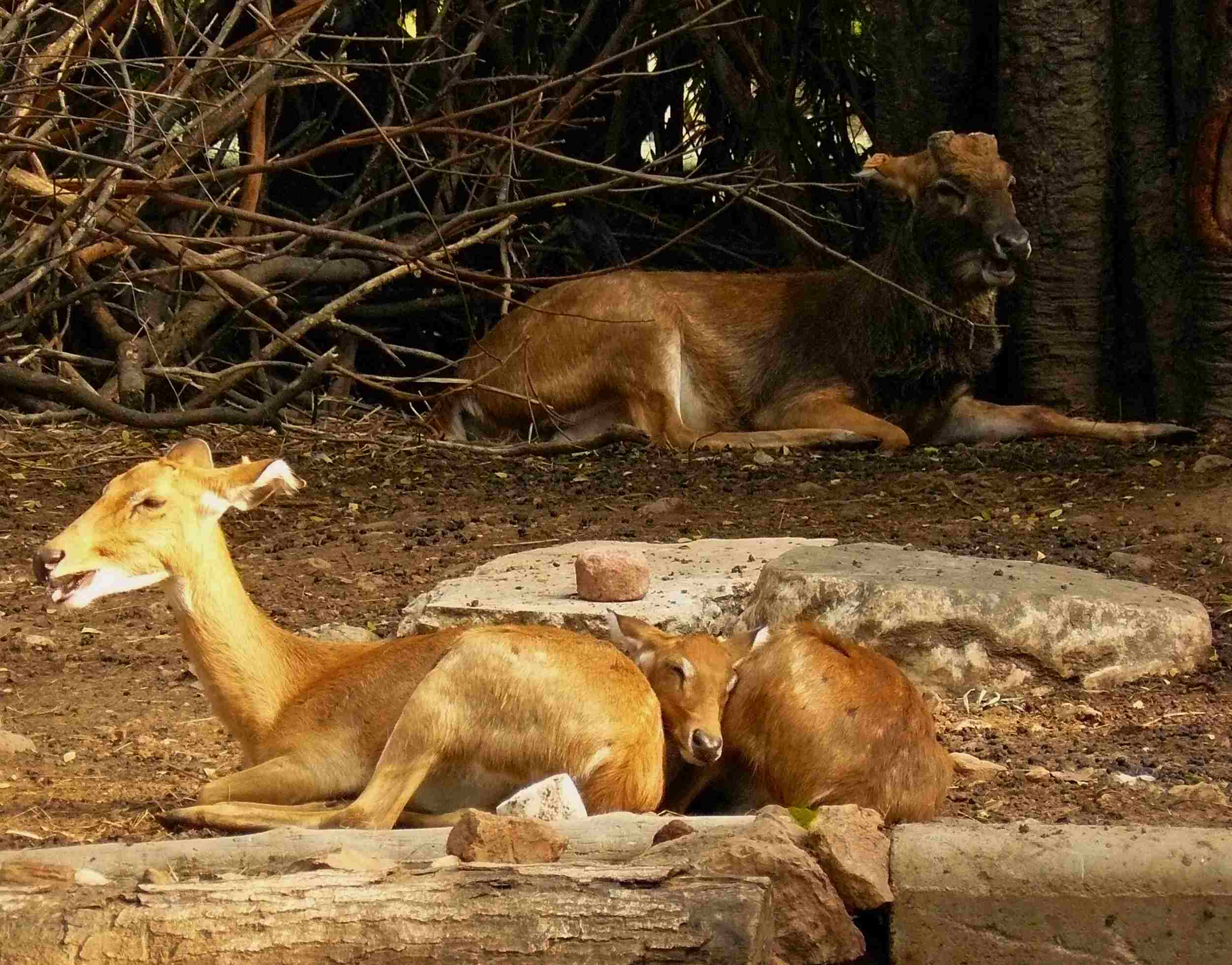 Rucervus eldii siamensis (female and young foreground, male without antlers in background) at Dusit Zoo Bangkok